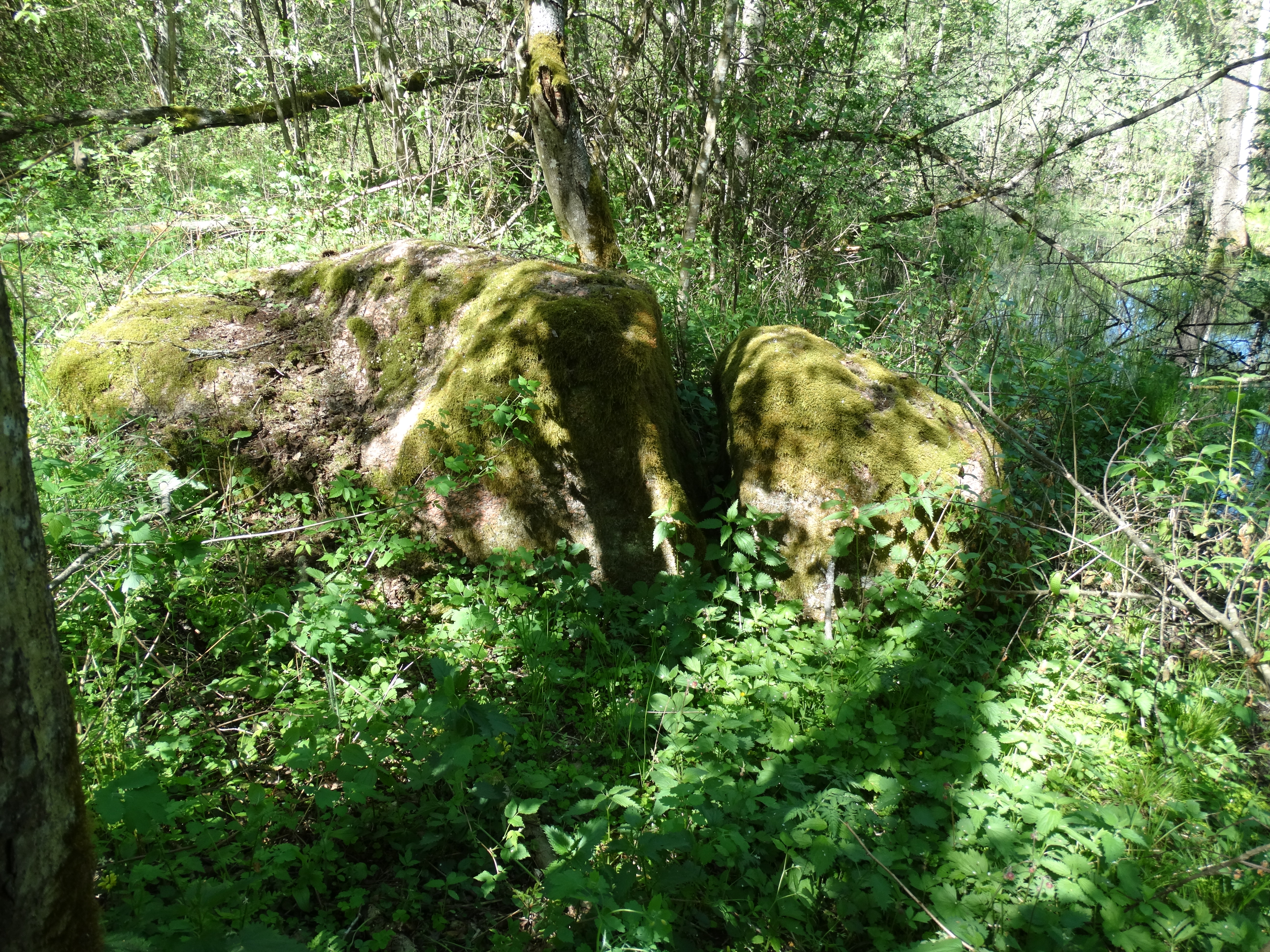 Stone in Levaniškiai, Molėtai District, Lithuania